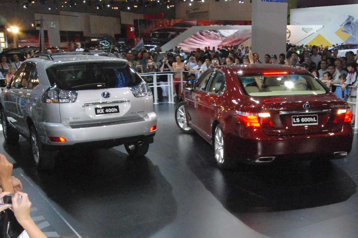 Lexus at Melbourne